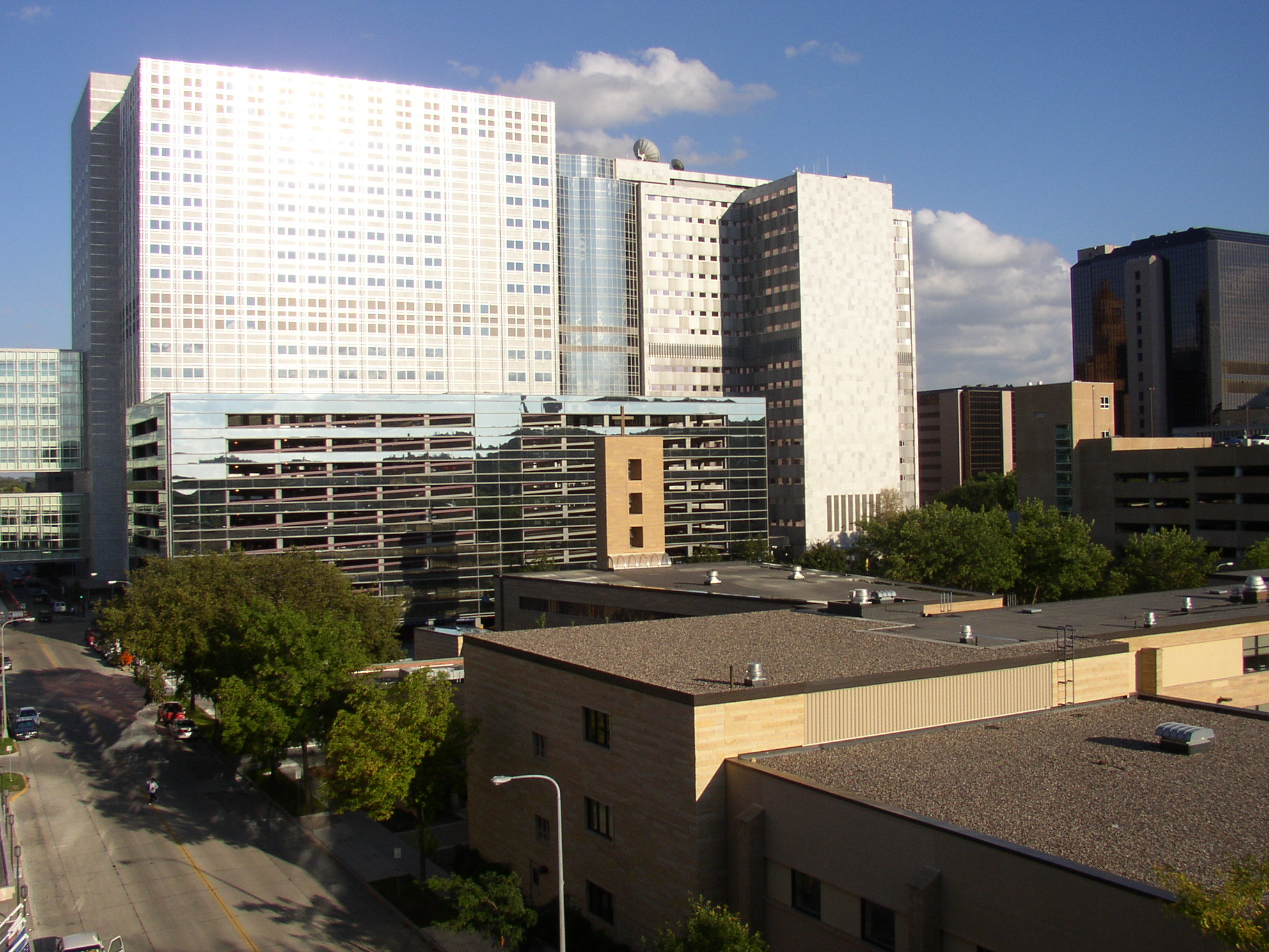 The Mayo and Gonda buildings of the Mayo Clinic in Rochester, Minnesota. I, User:Knowledge Seeker, took this photograph on September 19, 2005.